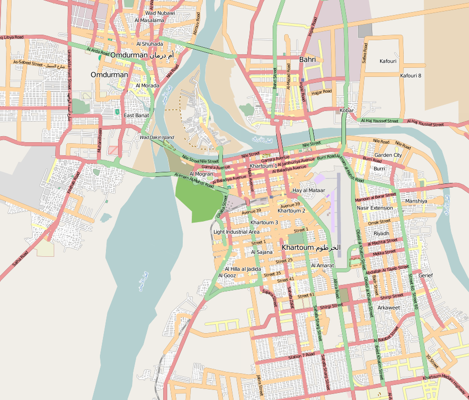 Map of Khartoum, Sudan Geographic limits of the map: N:15.66 ° N S: 15.529 ° N W: 32.437 ° E E: 32.598° E